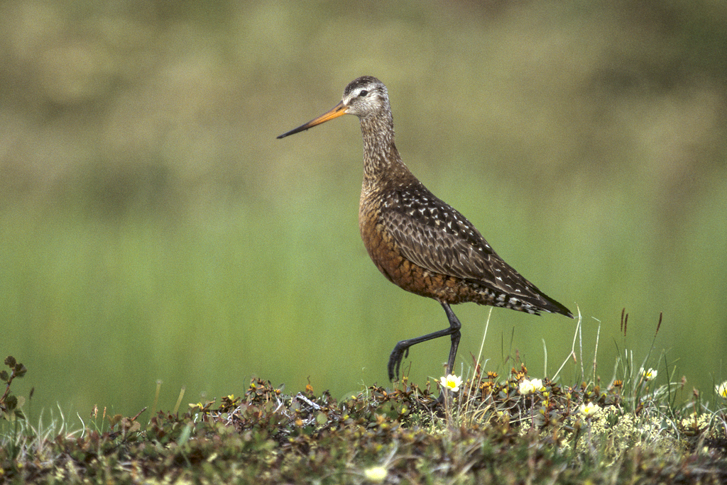 Hudsonian Godwit - Churchill - Canada 01